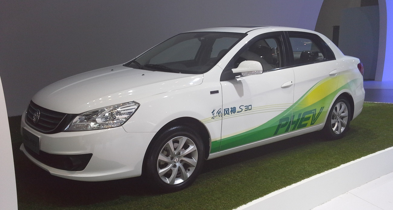 Dongfeng Fengshen S30 PHEV Concept photographed at the Auto China 2014, Beijing, China.